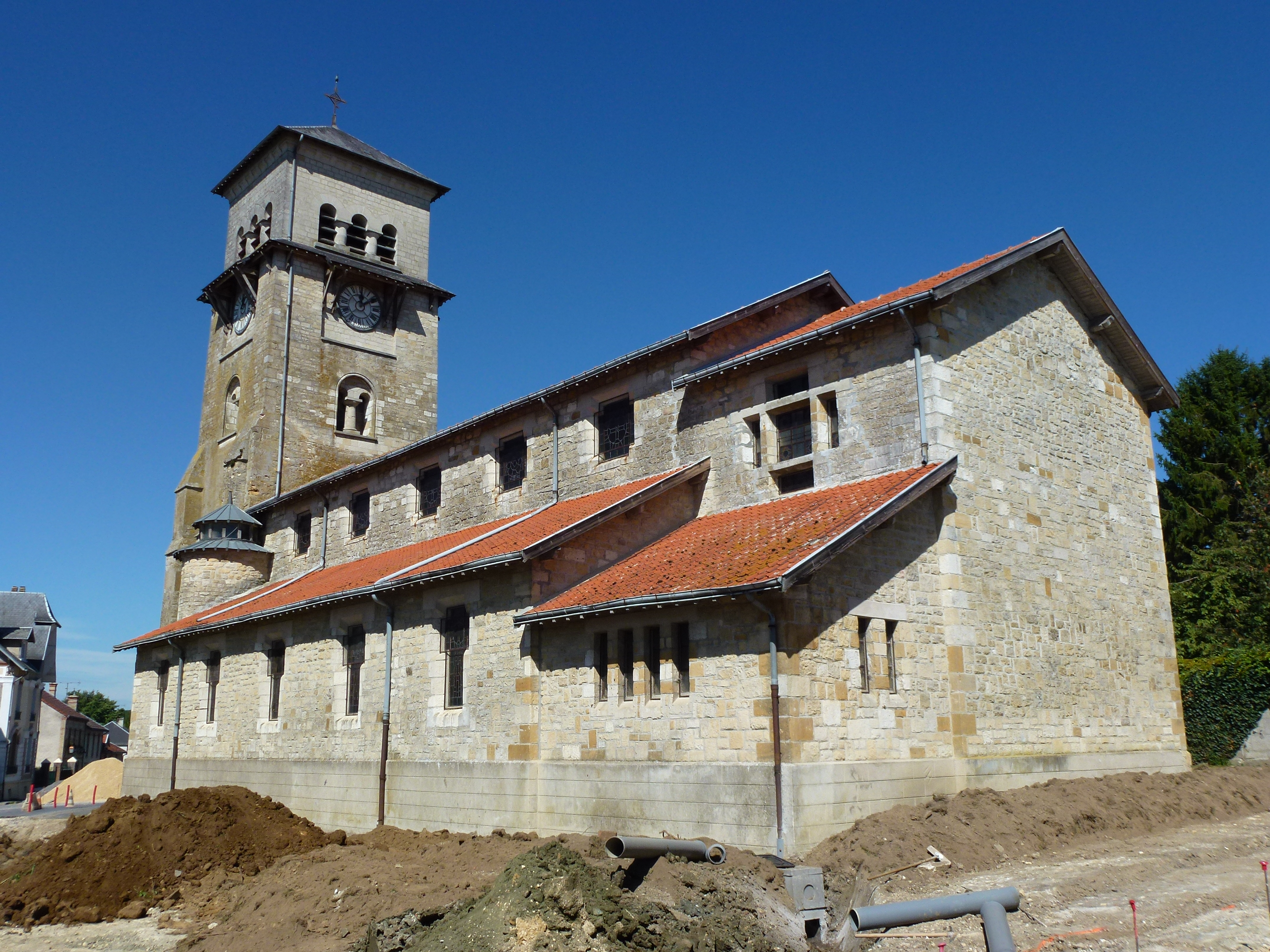 Saulces-Monclin (Ardennes) église, vue laterale